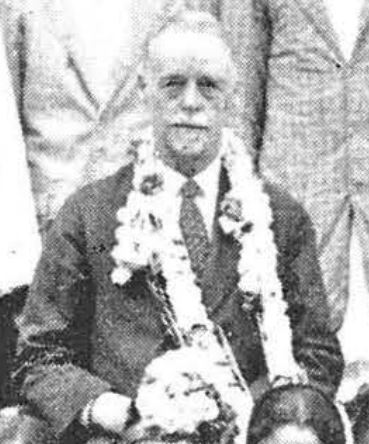 "Mr. and Miss Irvine and the Misses Garrett". Taken from the work 25 Years' Mission Among the Lepers of India in a Manner Believed to be Scriptural by William C. Irvine (1938)